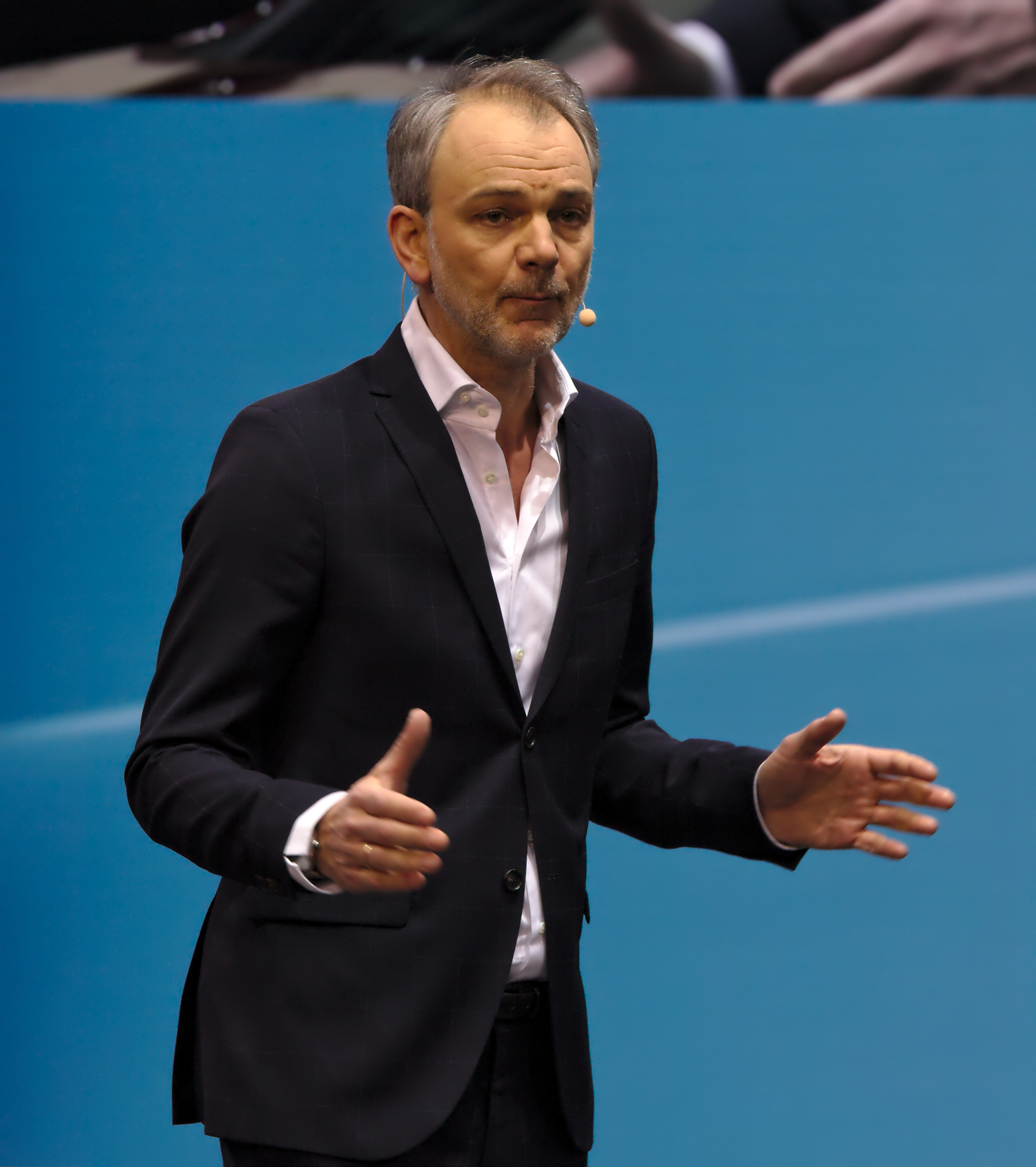 Adrian van Hooydonk at Geneva Motorshow 2018